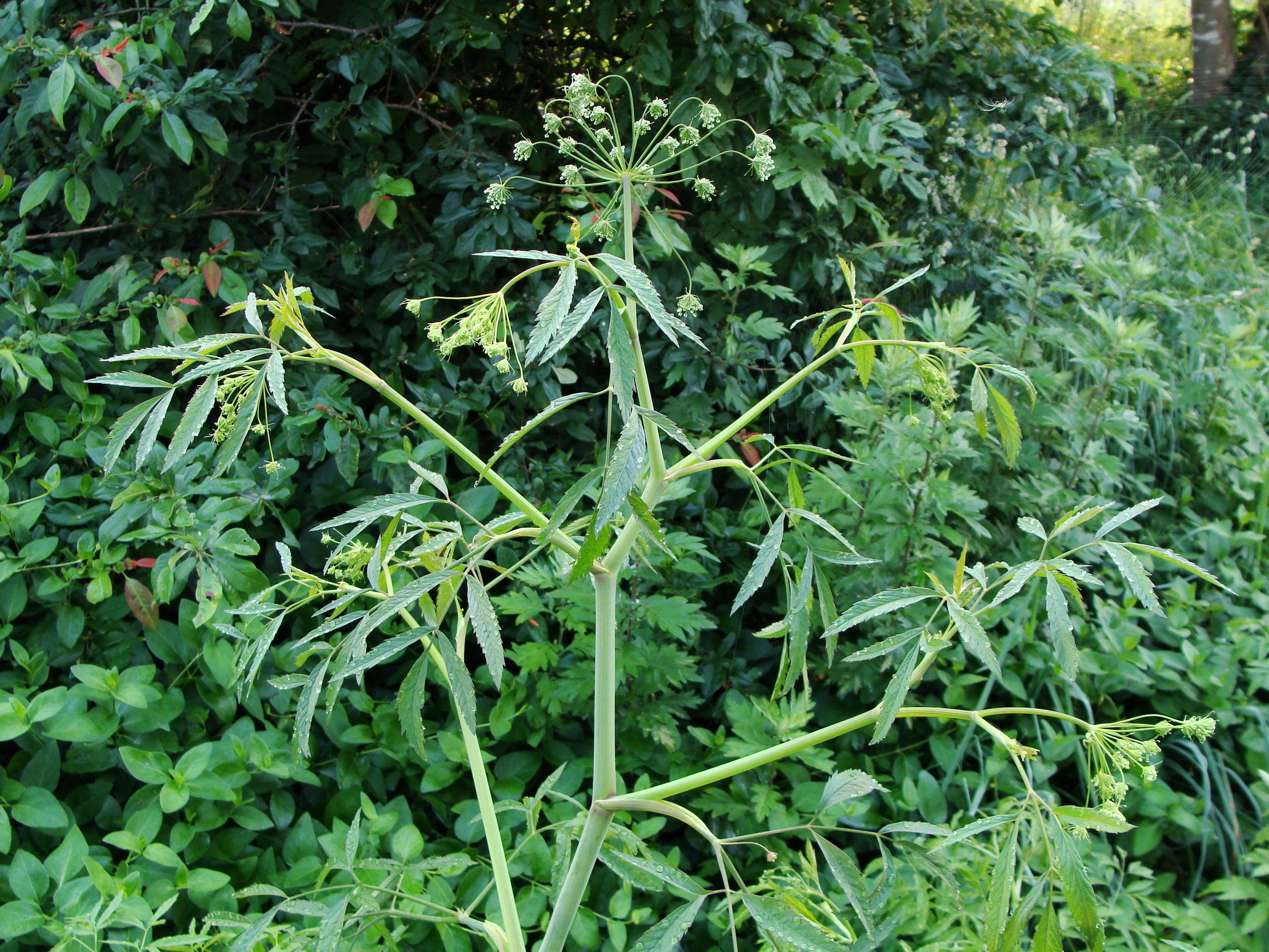 Cicuta virosa